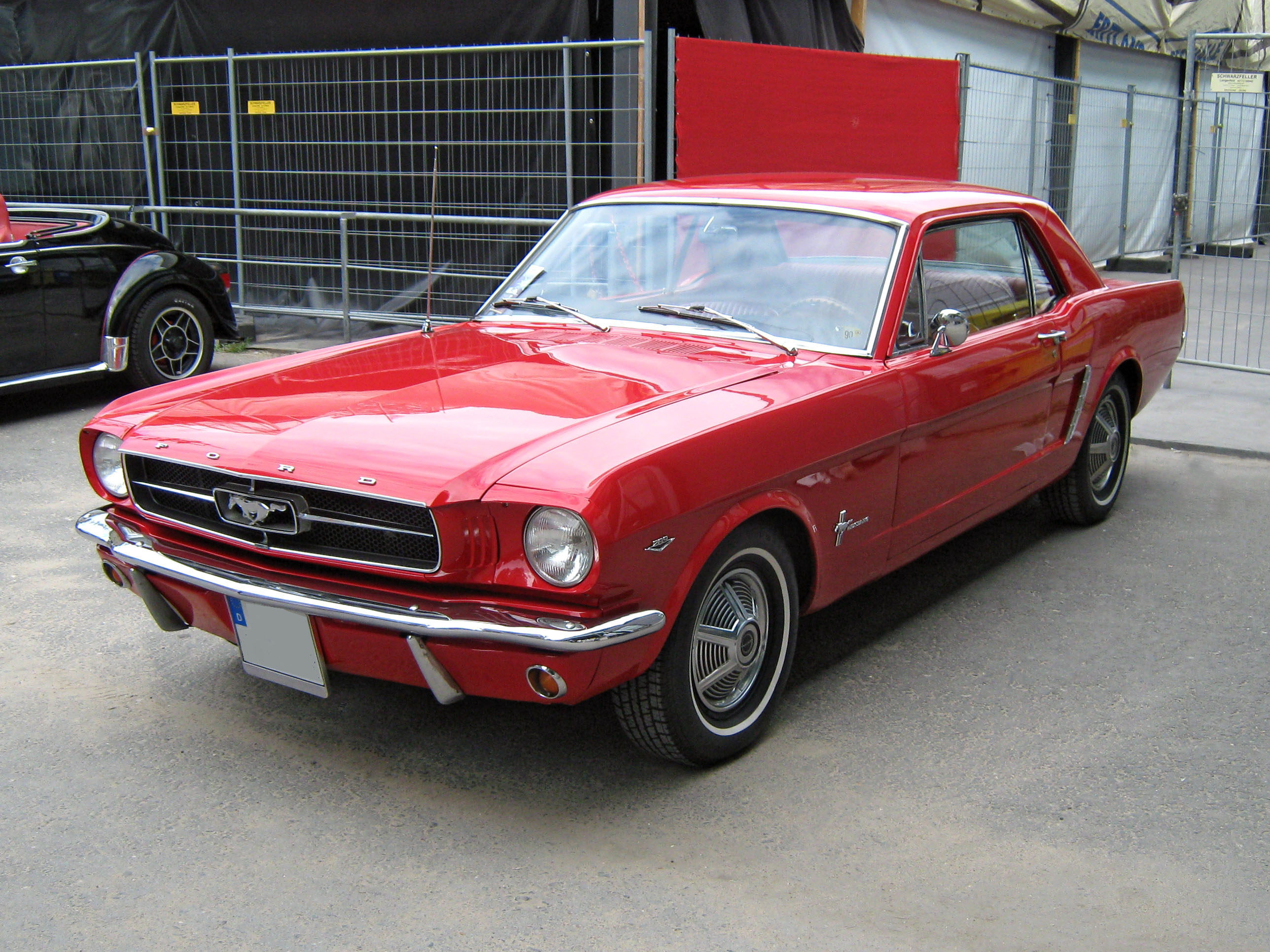 1965 Ford Mustang 2D Hardtop frontview